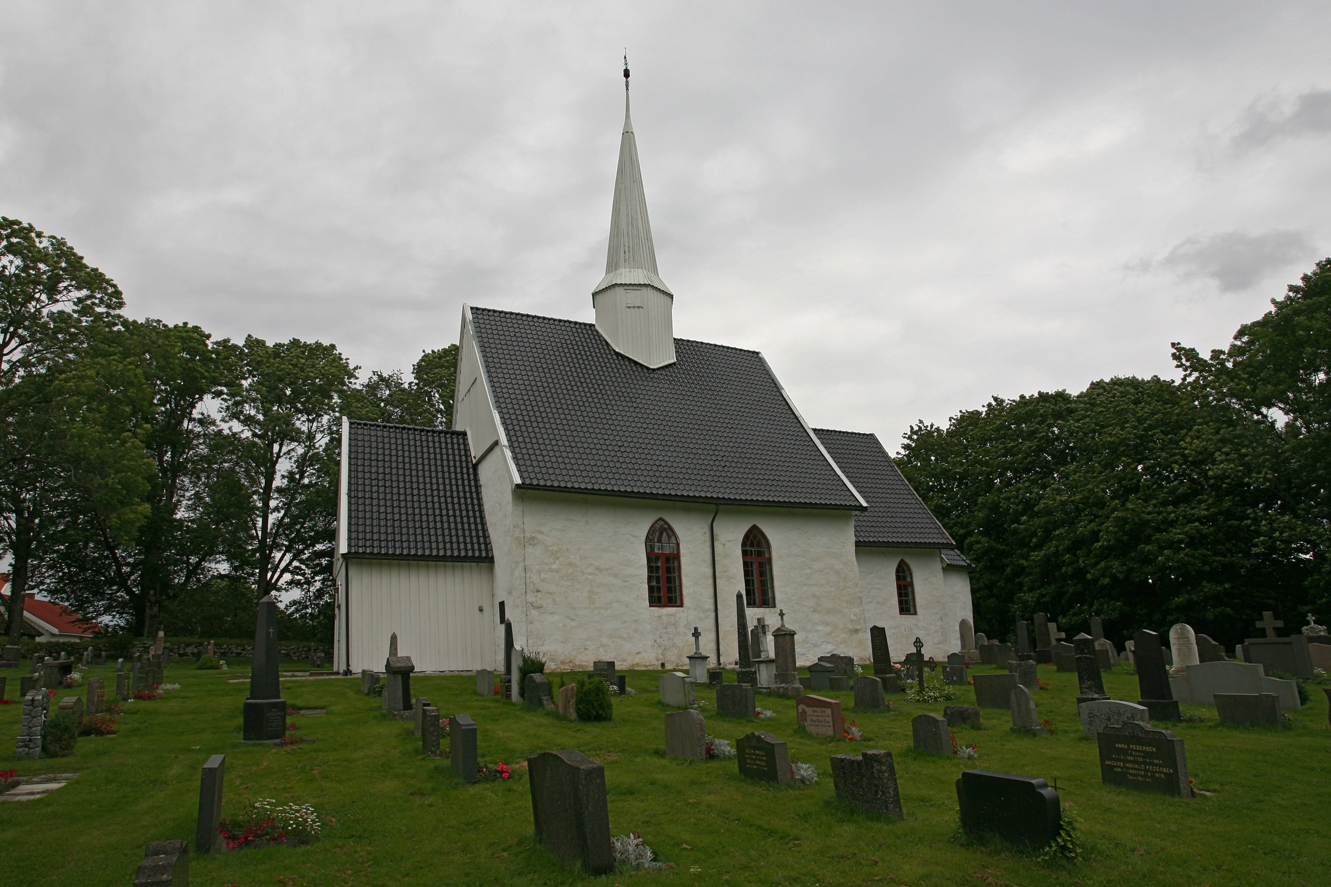 Picture of Hobøl kirke (Østfold - Norway)